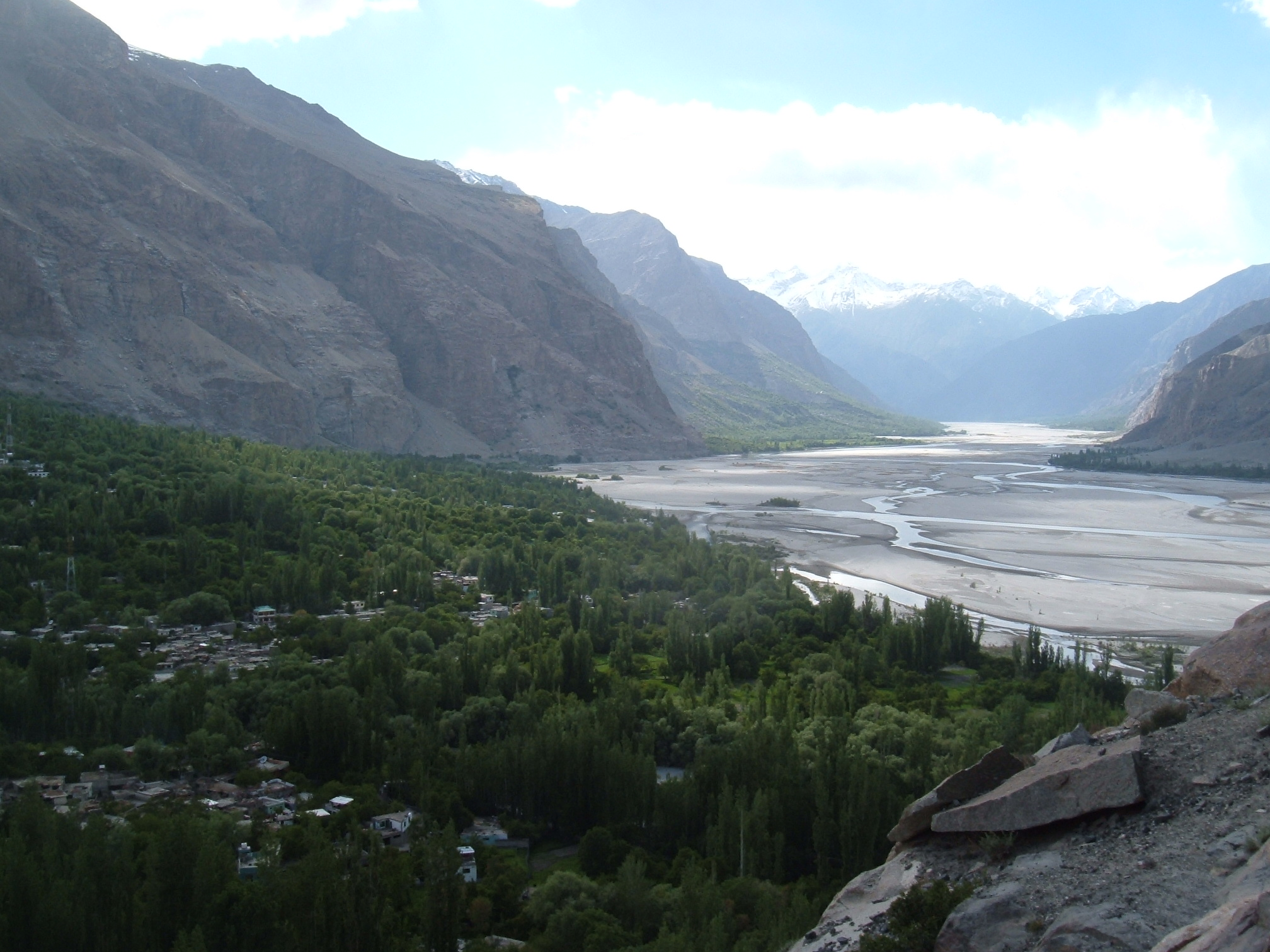 khaplu with shyoyuk river